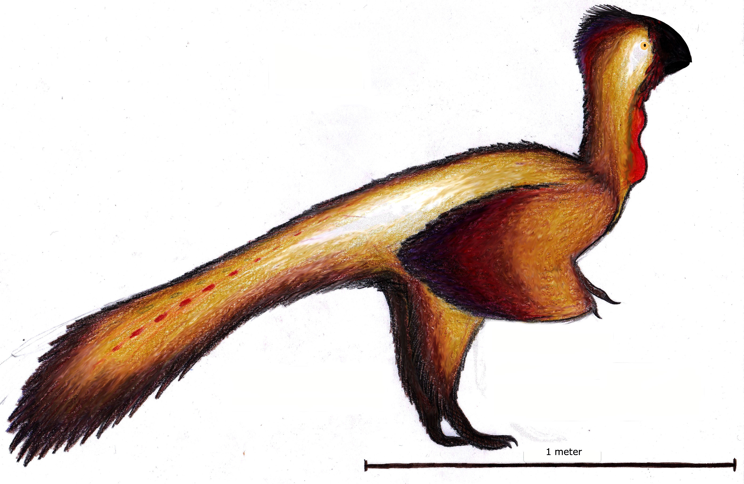 Artis's impression of Wulatelong